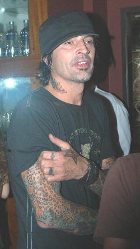 Tommy Lee, at Digital Playground Party on September 22, 2004.